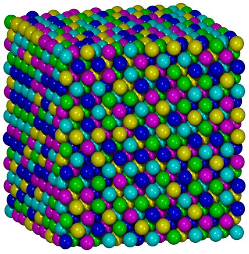 Fe, Co, Cr, Ni, and Mn atoms are in magenta, green, blue, cyan, and yellow, respectively.